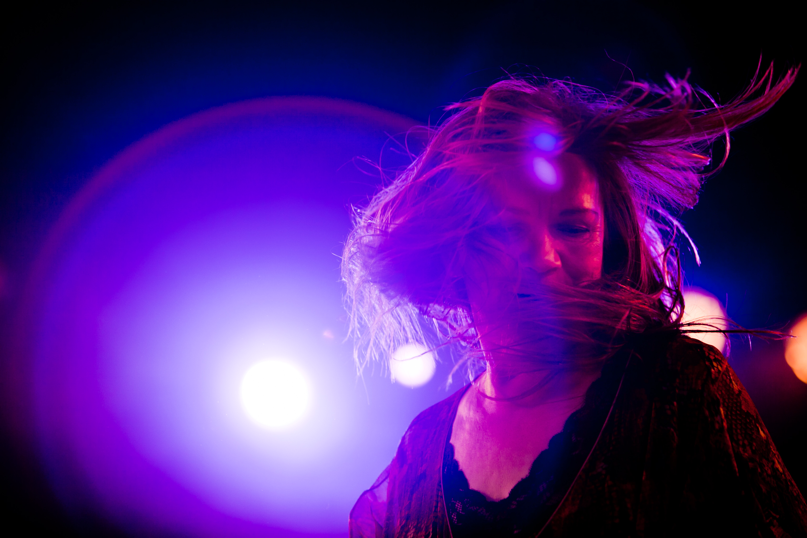 Mari Boine on Riddu Riddu. Photo: Marius Fiskum